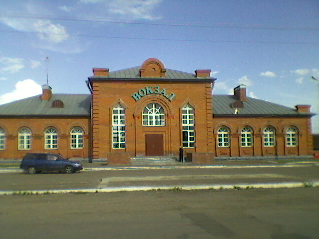 Sviyajsk-RWS